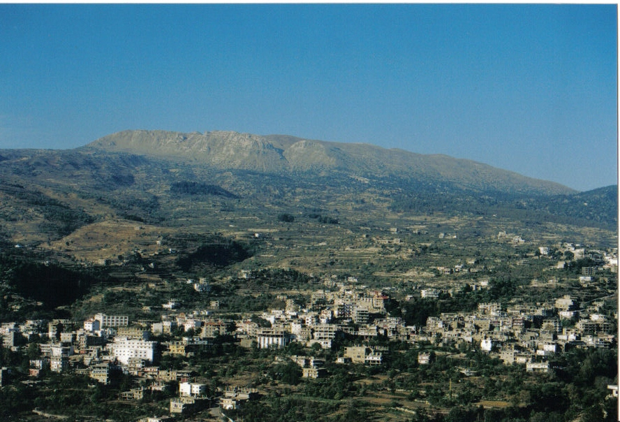 View of Mish Mish from a mountain north of the village in the Akkar region of north Lebanon